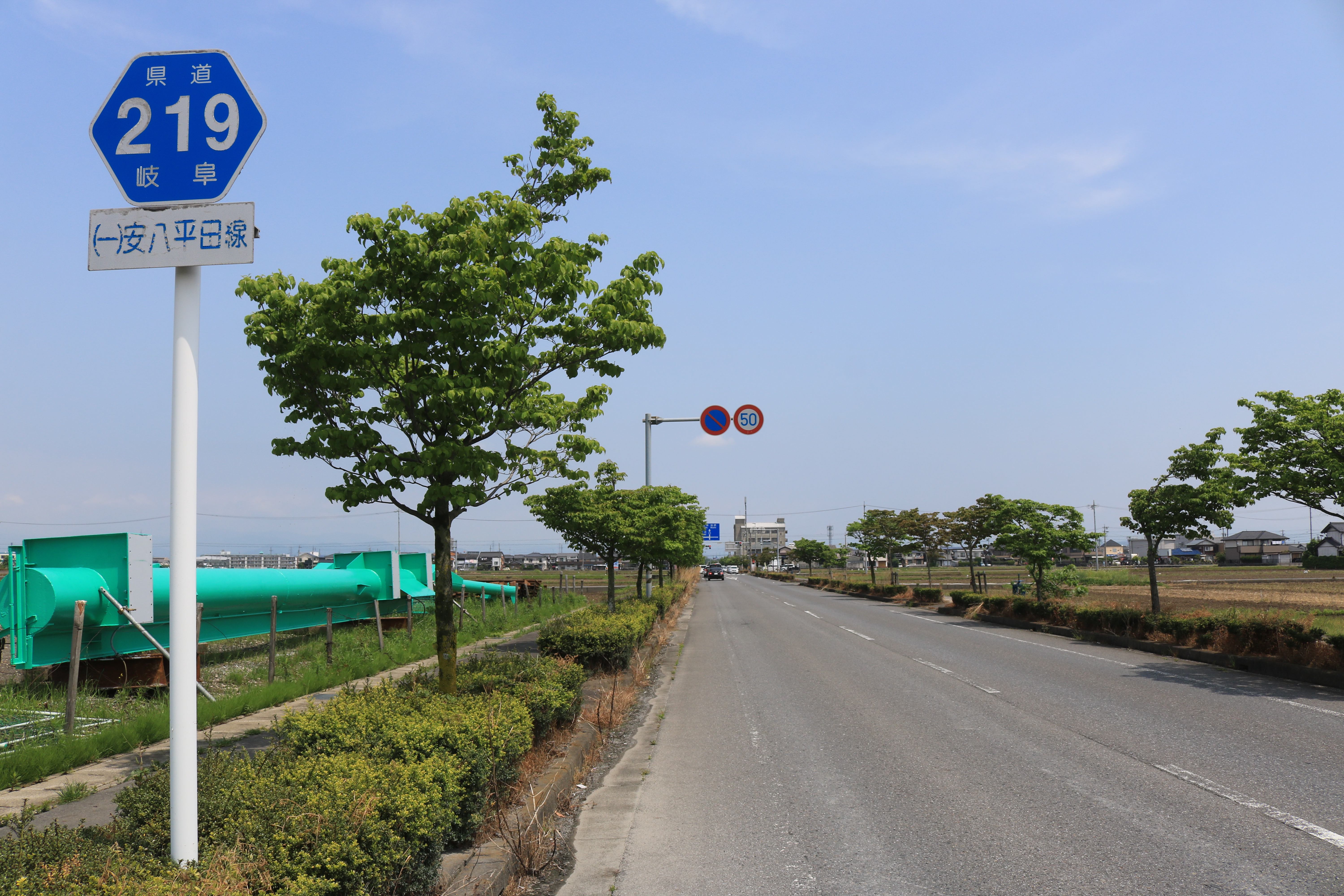 Gifu Prefectural Road Route 219 in Shimojuku, Sunomata-cho, Ogaki, Gifu prefecture, Japan.